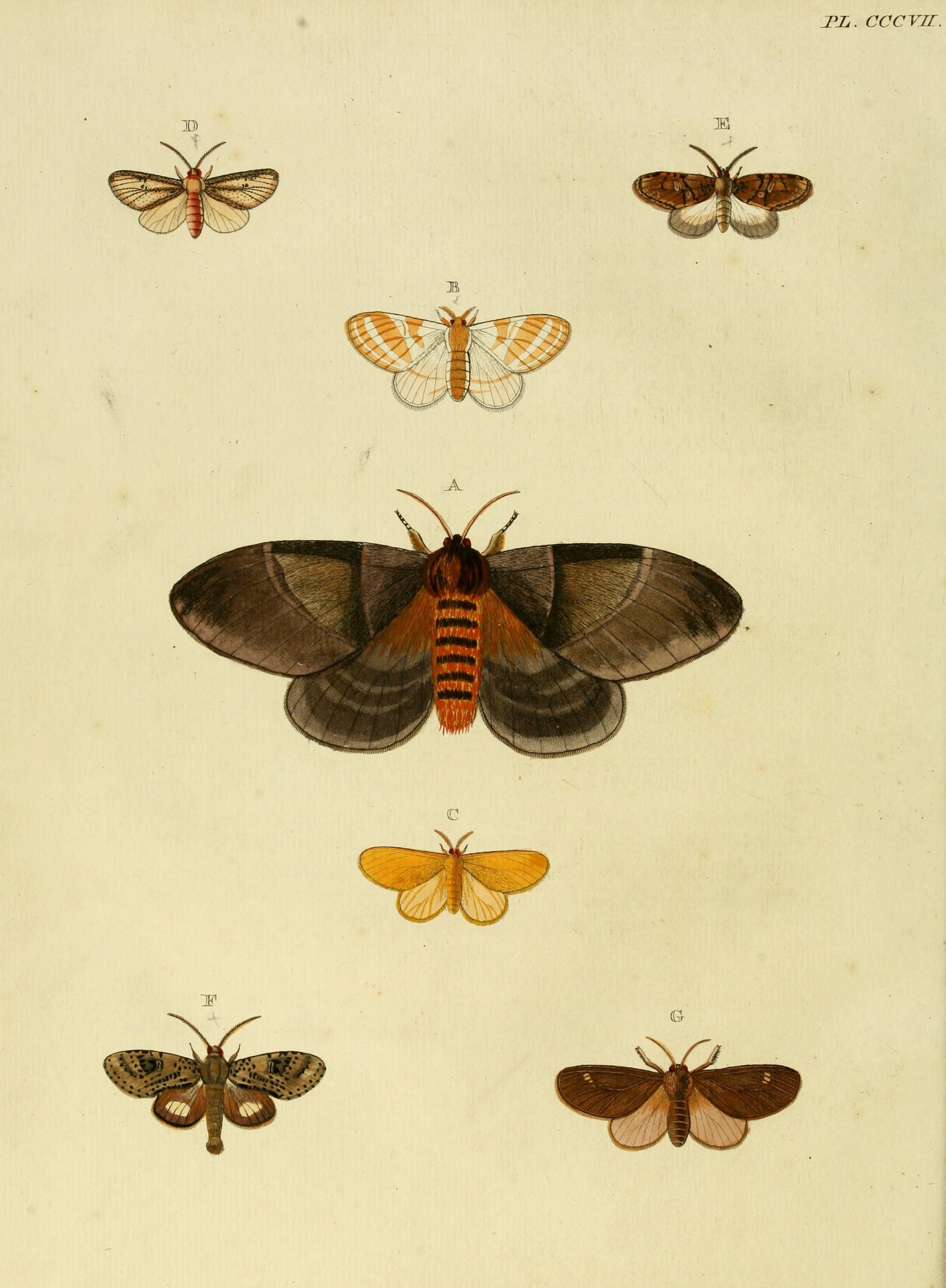 Plate CCCVII Warning: some taxa/names may be misidentified/misapplied or placed in a different genus. A: "(Phalaena) Avia" ( = Dirphia avia (Stoll, 1780), iconotype?, see Funet). Photos at Barcode of Life. B: "(Phalaena) Netrix" ( = Colla netrix (Stoll, 1789) iconotype?, see The Global Lepidoptera Names Index. NHM). C: "(Phalaena) Flavata" (=Hyperythra lutea (Stoll, [1781]), iconotype?, see Funet). Photos at Barcode of Life. D: "(Phalaena) Pilumnia" ( = Purius pilumnia (Stoll, [1780]), iconotype?, see Funet). Photo at . E: "(Phalaena) Altrix" ( = Tifama chera (Drury, 1773), see Funet). F: "(Phalaena) Punctata" ( = Malocampa punctata (Stoll, [1780]), iconotype?, see Funet). Photos at Barcode of Life. G: "(Phalaena) Fusca" ( = Sibine fusca (Stoll, 1781), iconotype?, see The Global Lepidoptera Names Index, NHM).